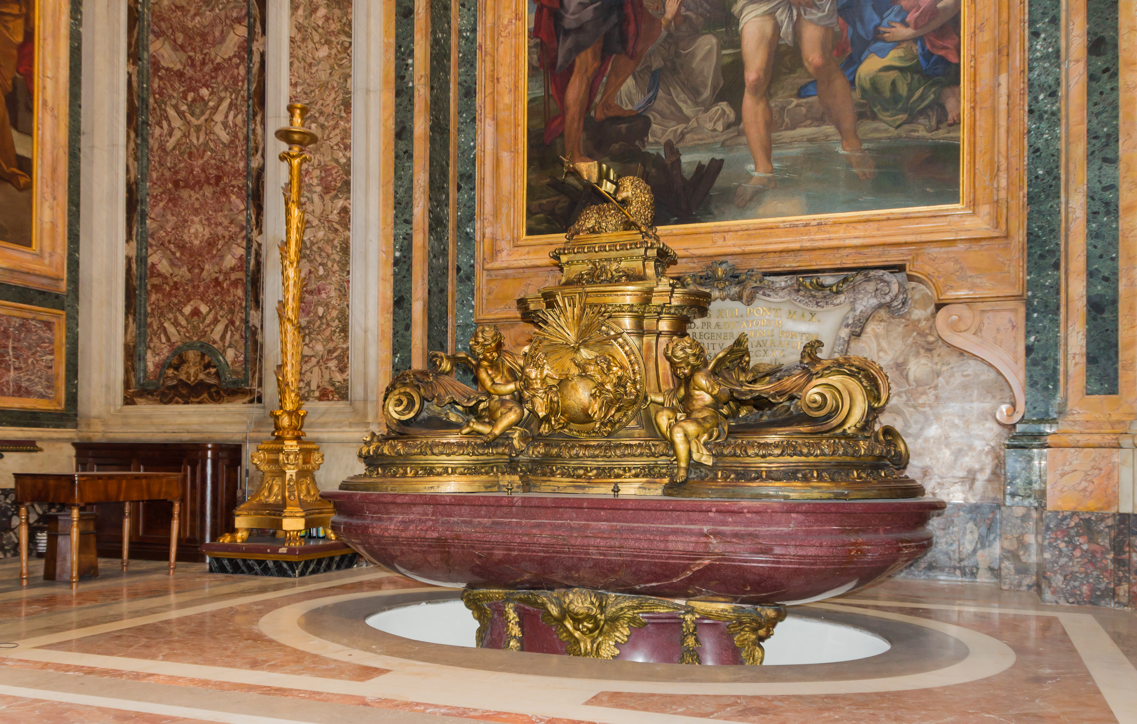 Baptismal fonts in the Saint Peter's Basilica. Vatican City. Some theory says it may have been the sarcophagus of Emperor Hadrian, from the Mausoleum of Hadrian.